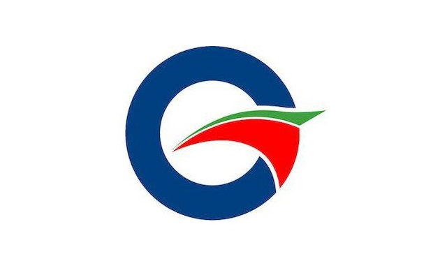 Flag of Gotsu Shimane